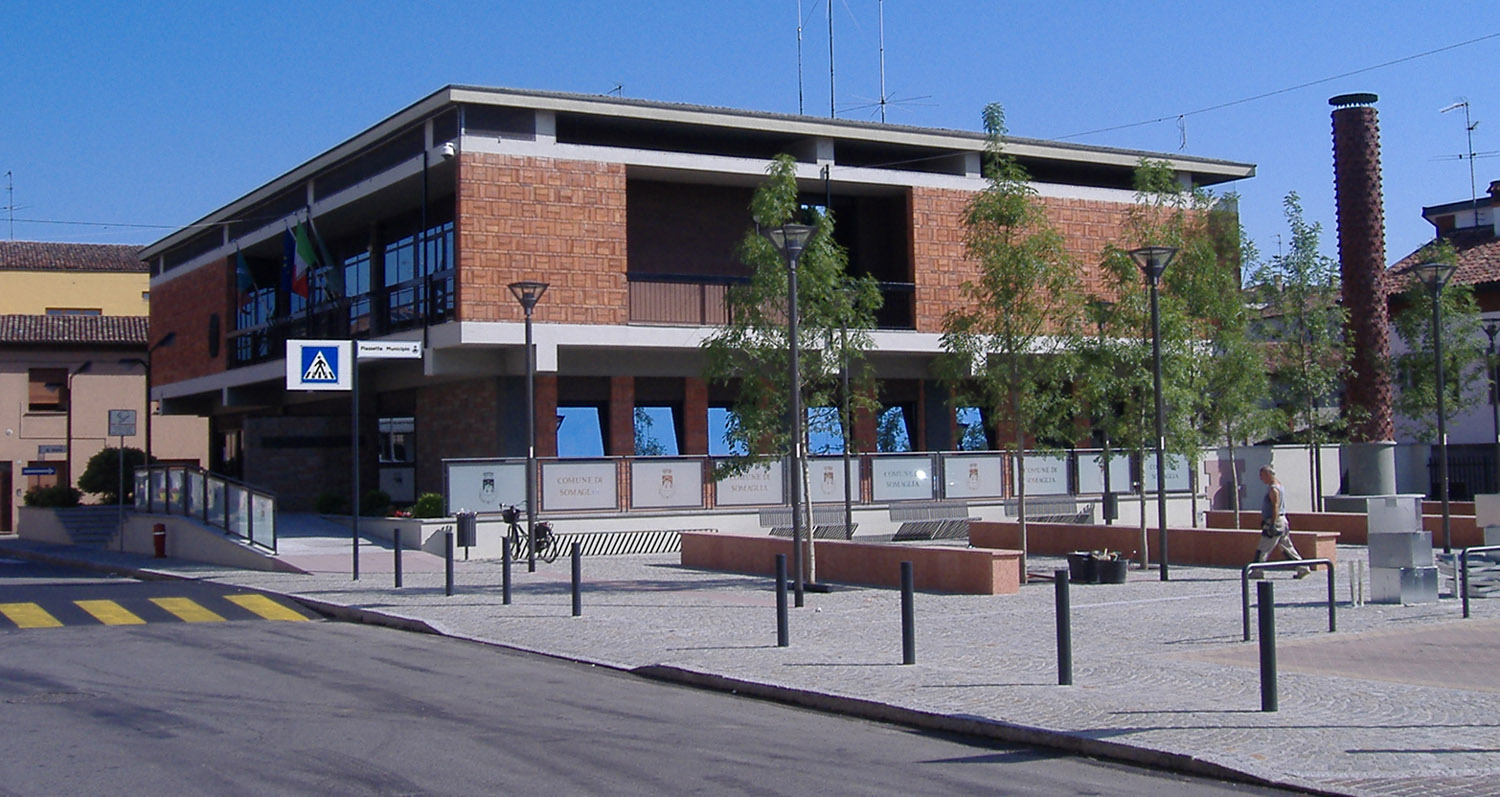 The Municipality Palace if Somaglia, (LO), Italy